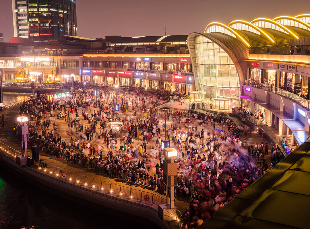 Outside view of Festival Bay located at Dubai Festival City Mall